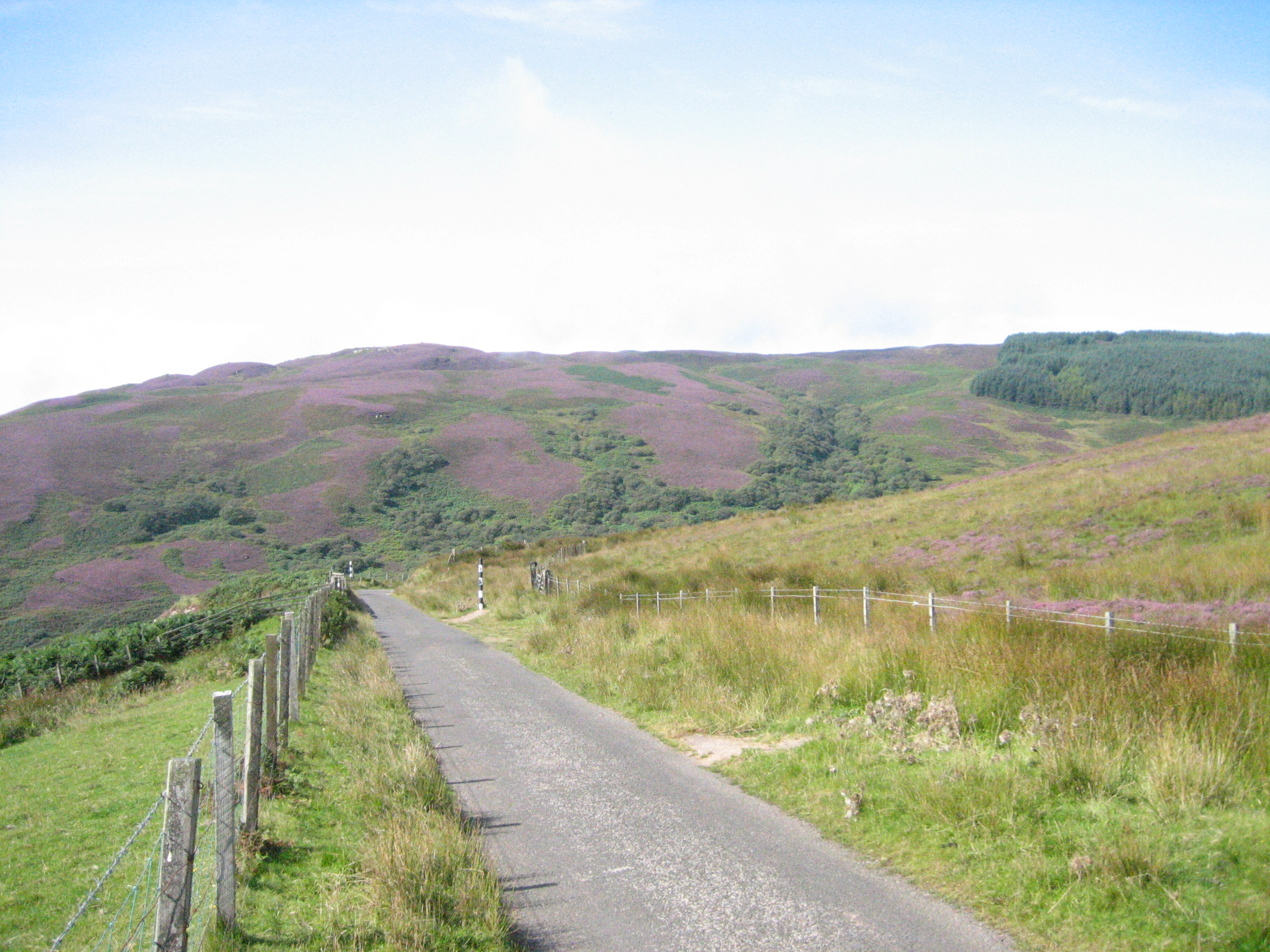 Heather covered mountains of the south coast of the Kintyre pensinsula, Scotland